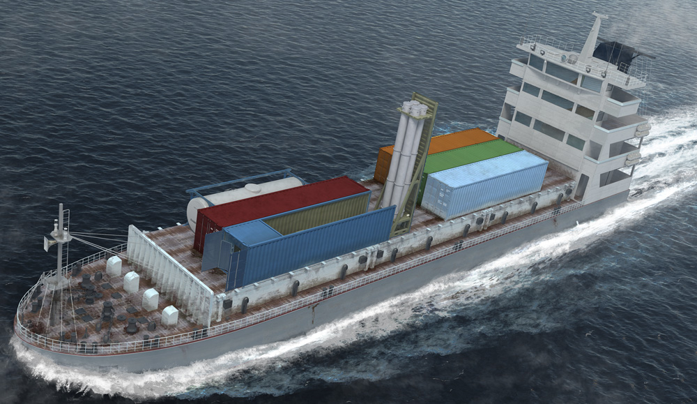 Club-K Container Missile System